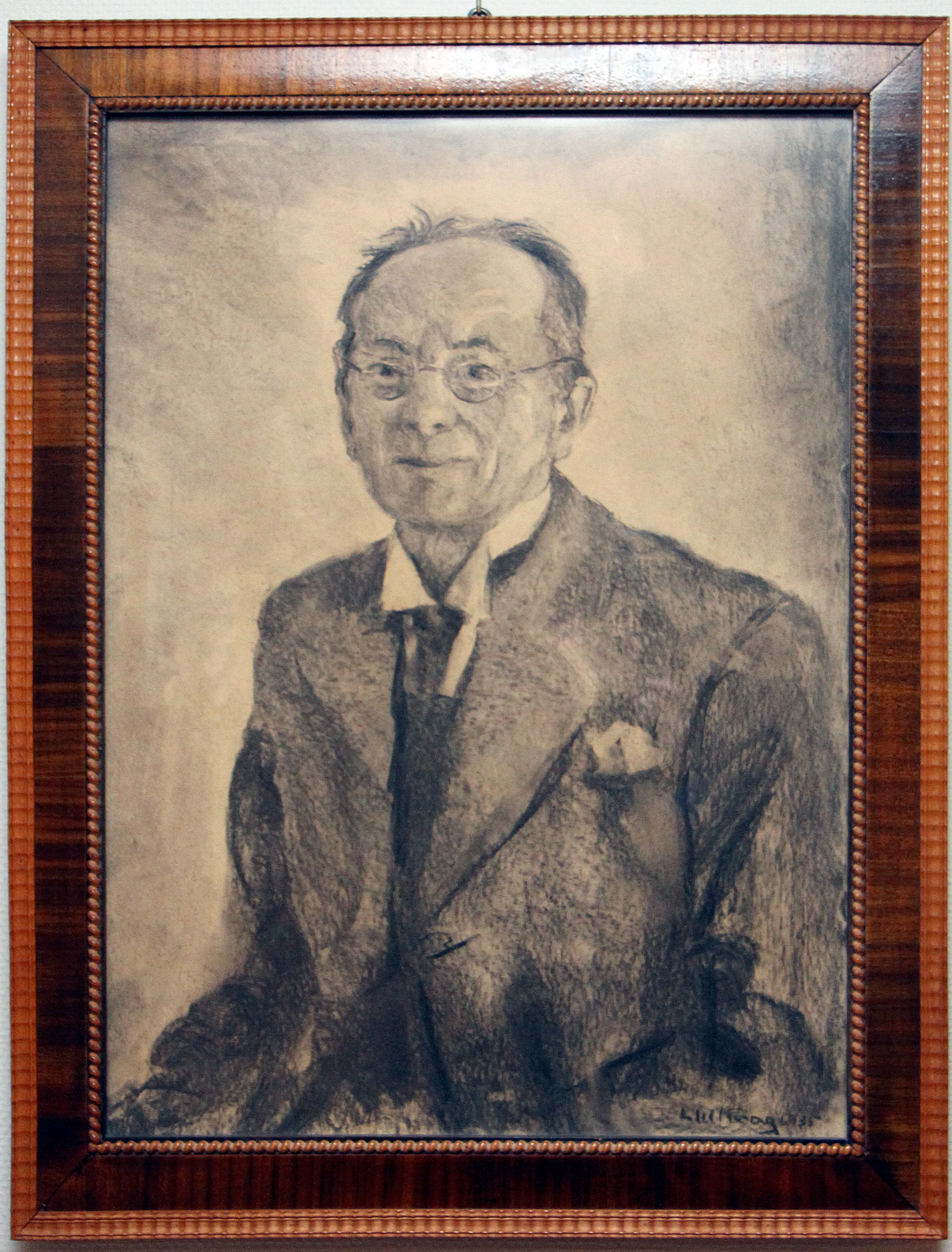 Johs. L. Ness teikna av Lul Krag i 1935.